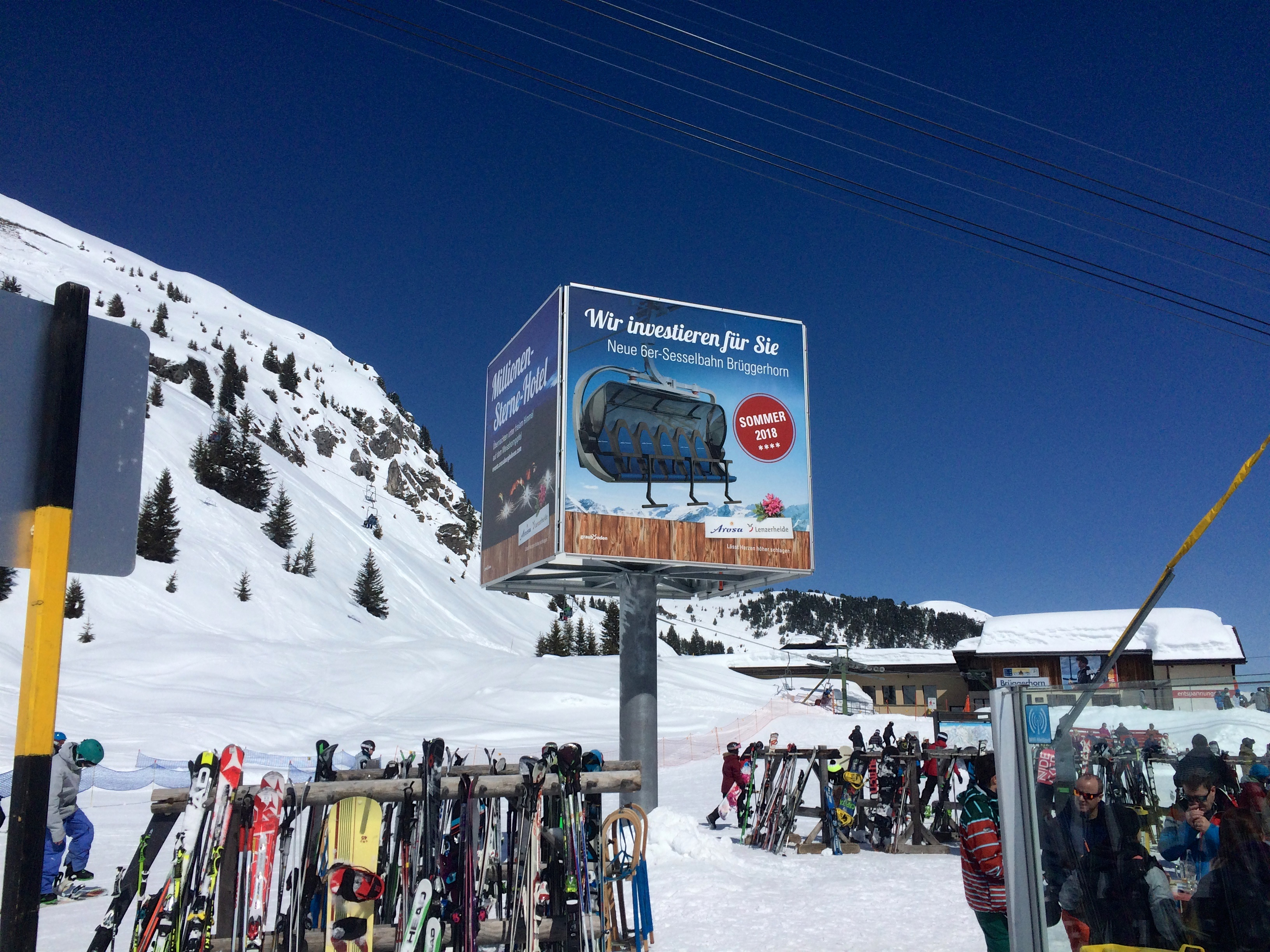 Ad for the new chairlift "Brüggerhorn" in the ski resort of Arosa/Switzerland